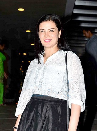 Urvashi Sharma snapped at Sachiin Joshis bash